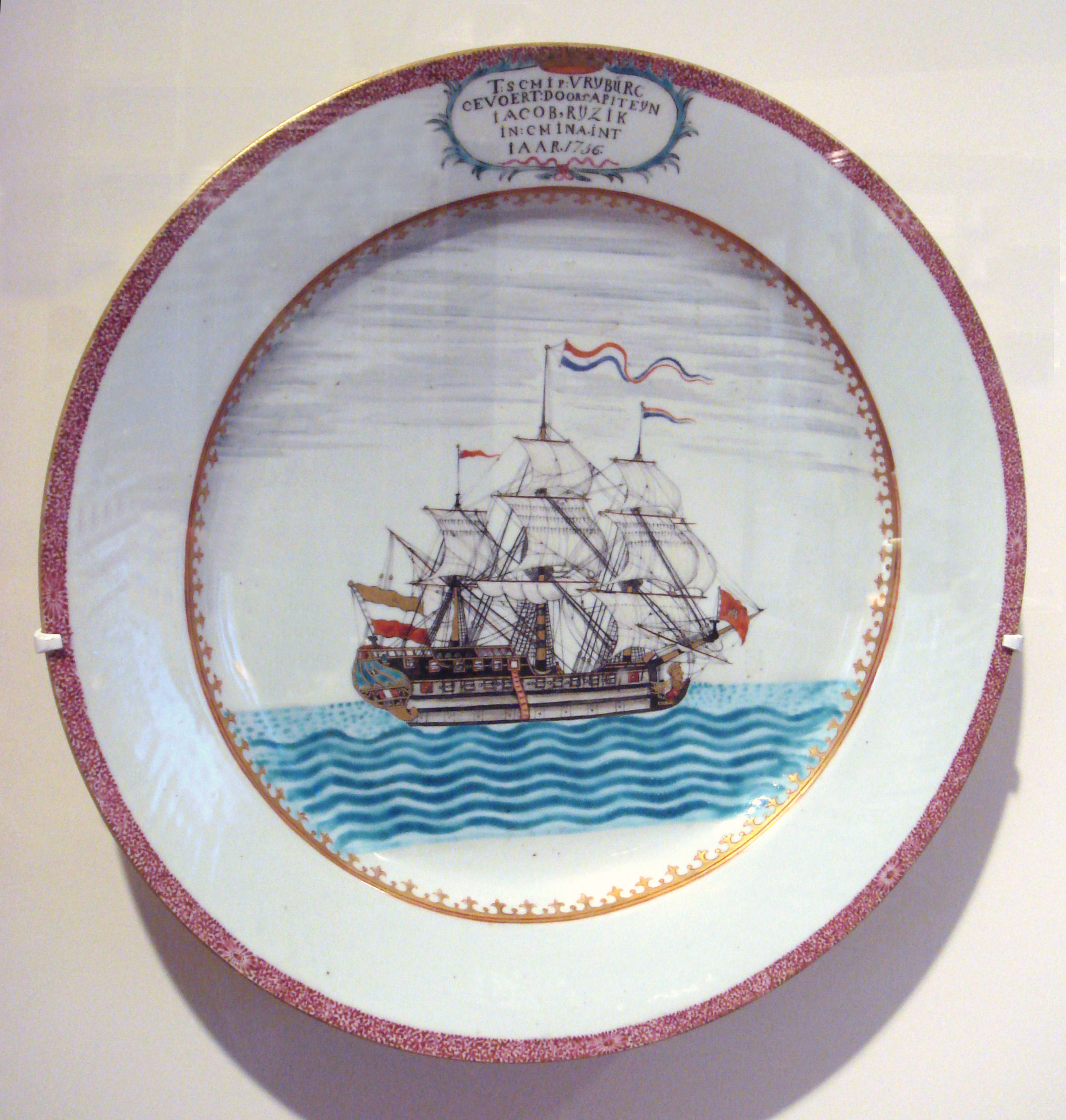 Chinese export porcelain with Dutch ship "Vryburg". 1756, Qianlong period, Canton.